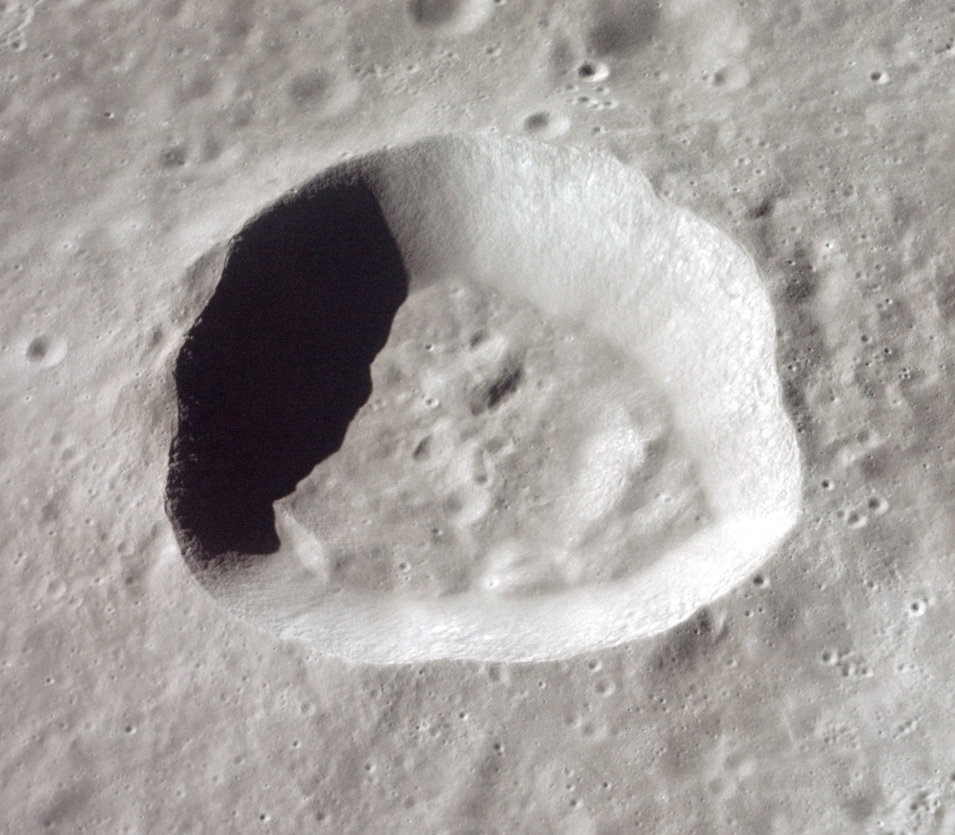 Oblique view of Vesalius M crater (south of Vesalius), on the far side of the moon.